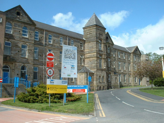 Burnley General Hospital. As the numerous signs testify, the hospital is subject to significant refurbishment and development - long awaited!